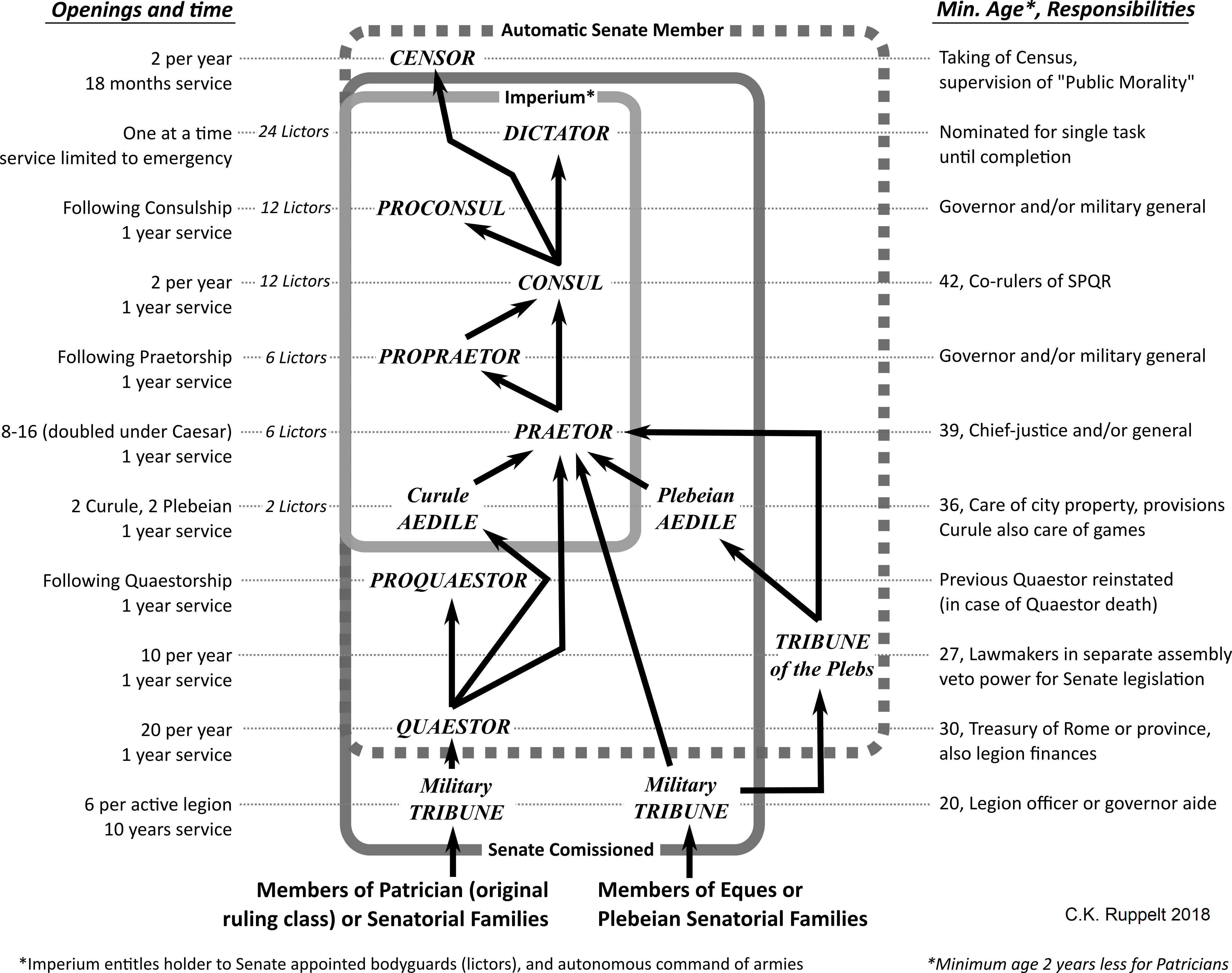 Diagram to showcase career paths and facts for the Cursus Honorum in the time of Caesar's career (1st century BC).